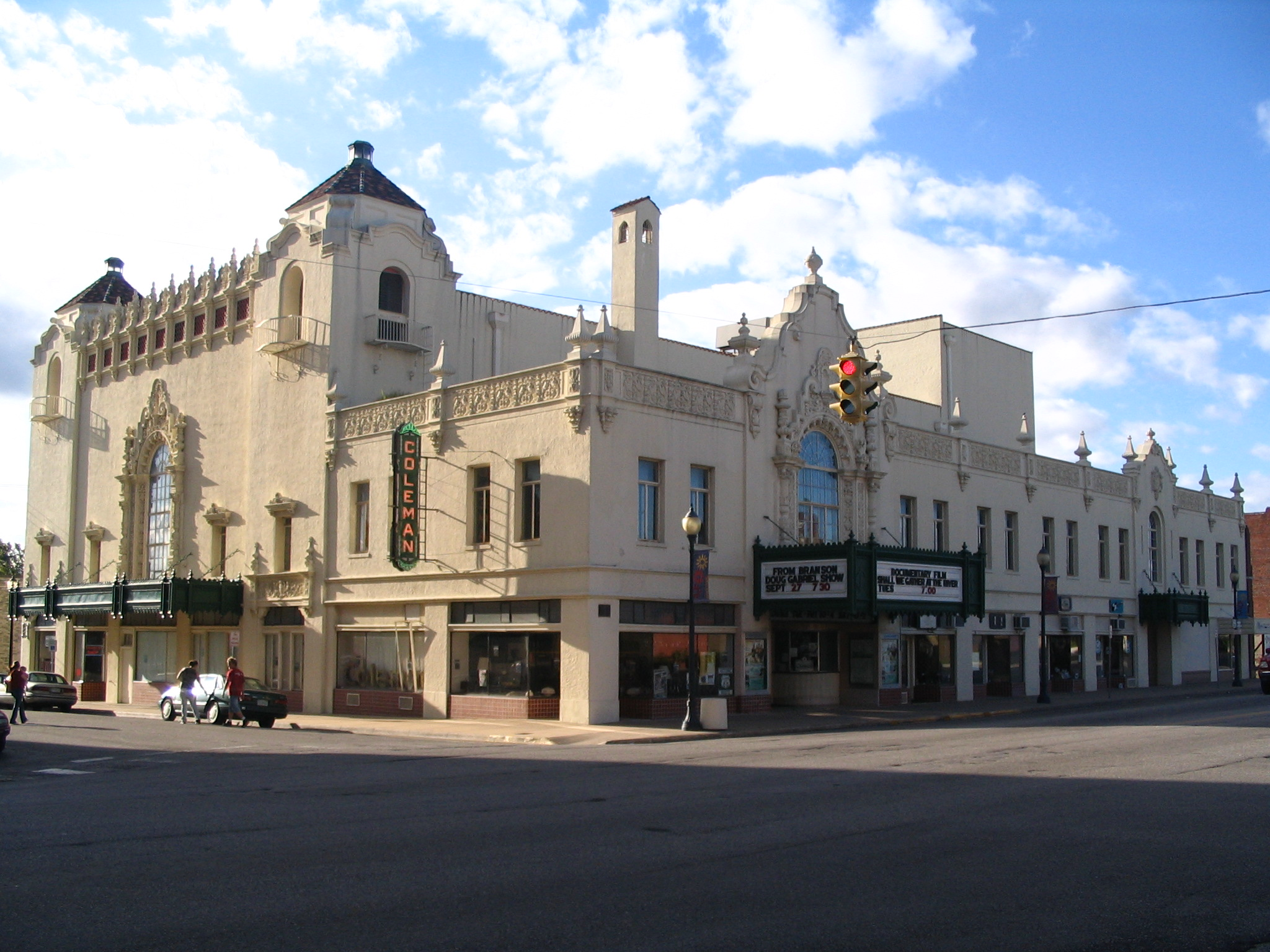 Coleman Theater in Downtown, Miami OK